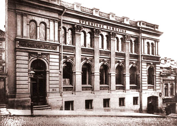 A former building Neoclassical in Kyiv. Destroyed during the Soviet era.